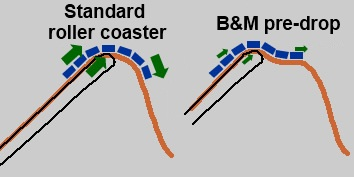 An English translation of File:Predescente.jpg. Diagram of the pre-drop track designs of B&M.